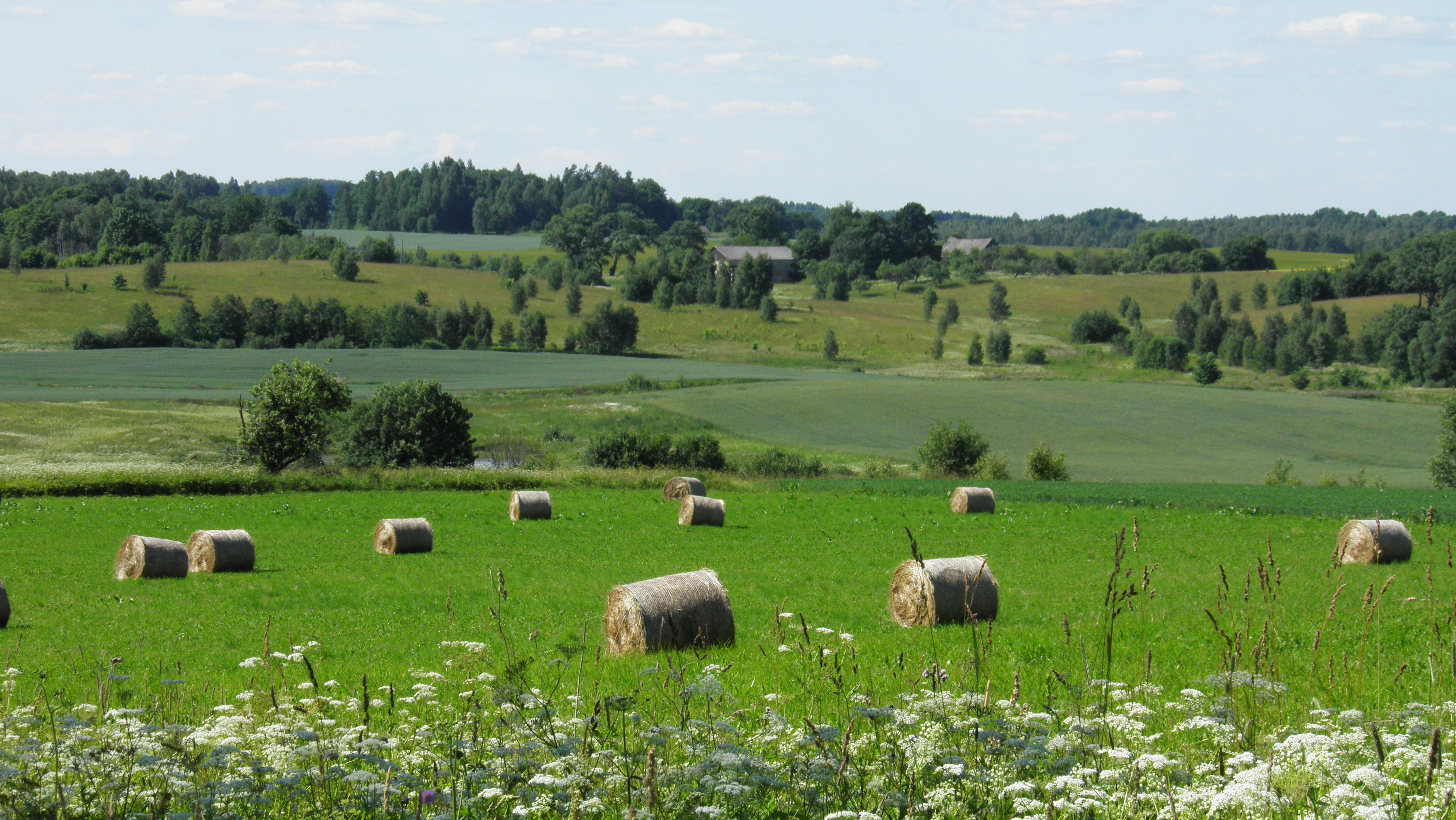 landscape